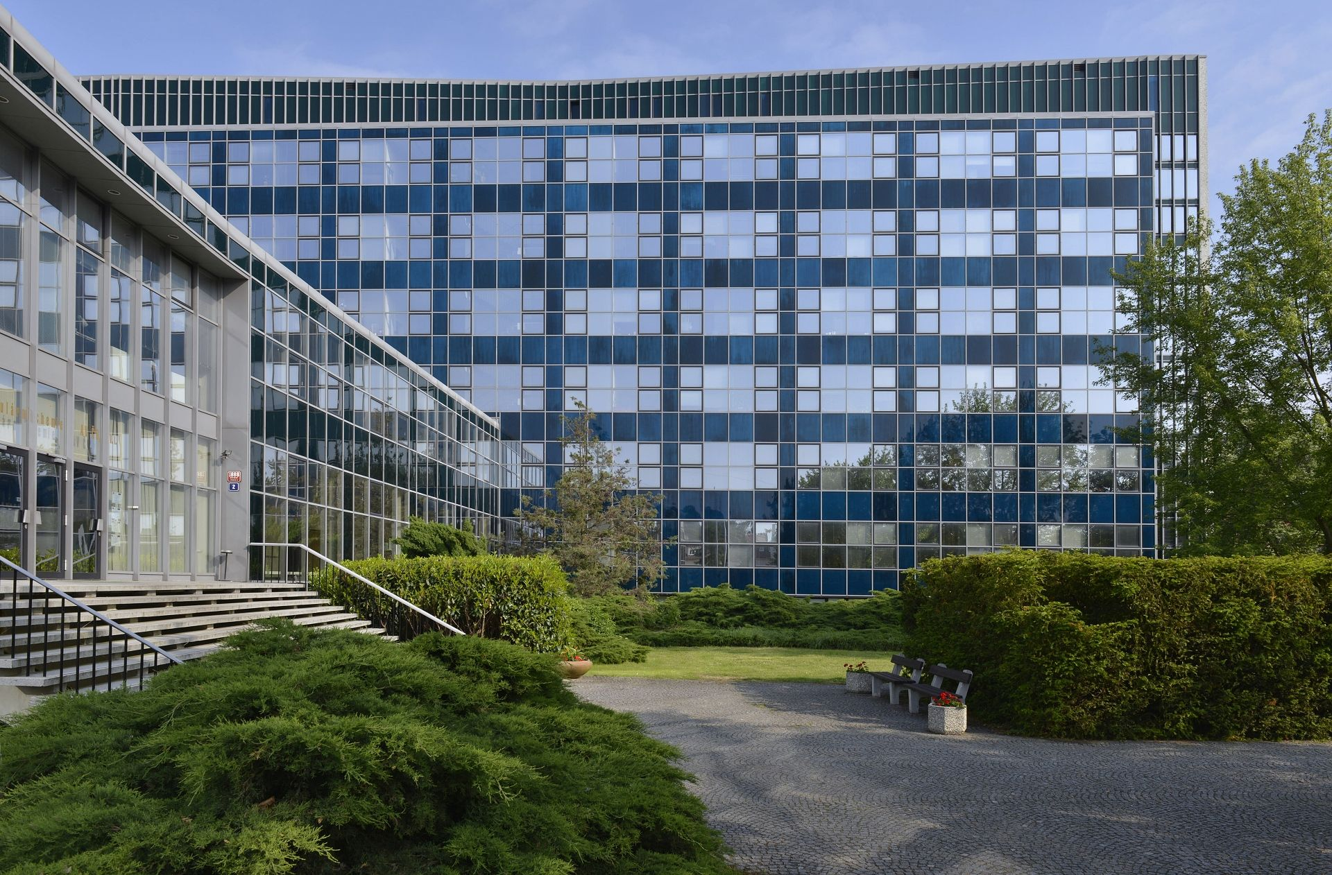 Ustav makromolekularni chemie